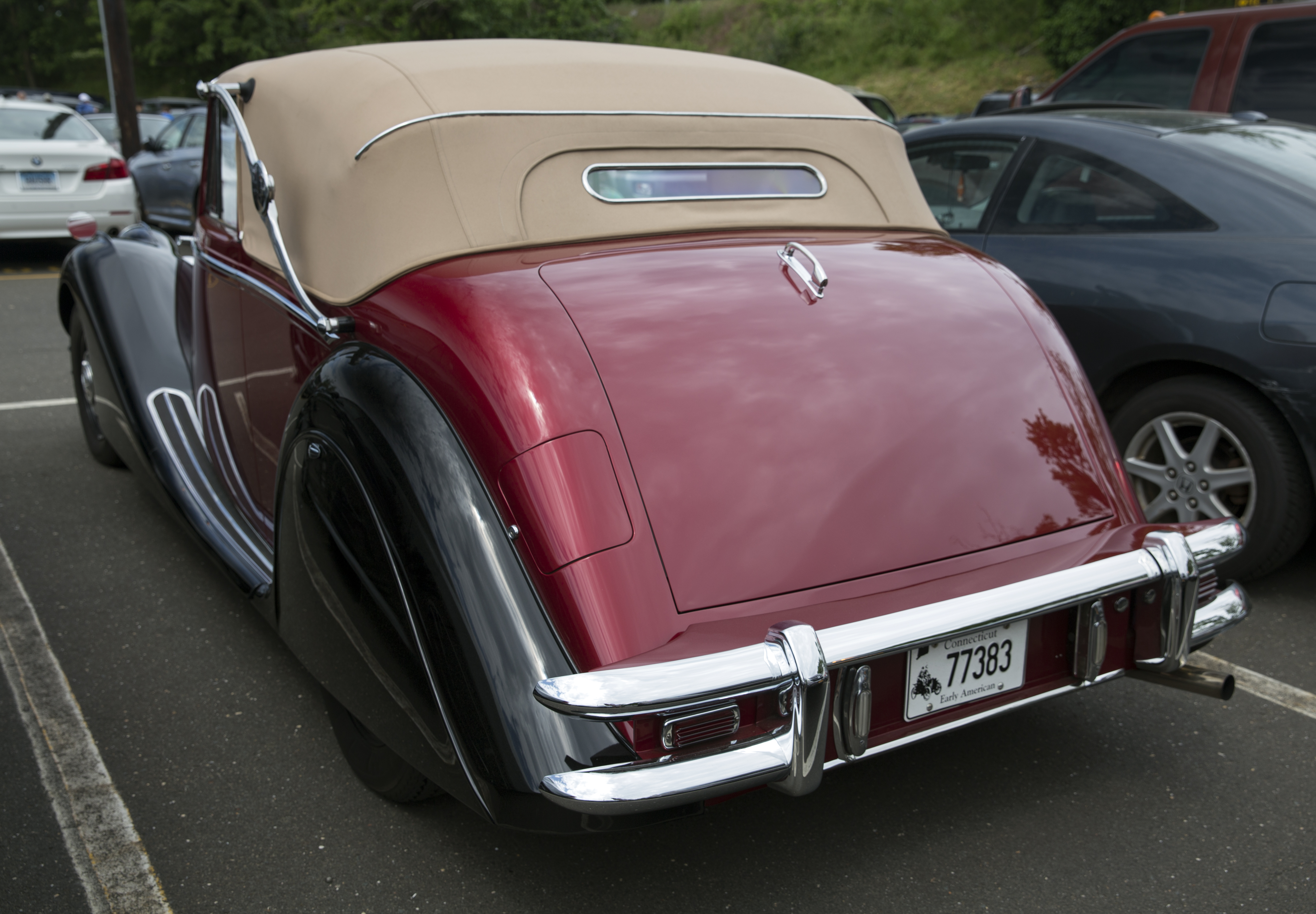 1950 Jaguar Mark V 3.5 Drophead Coupé trying to find a buyer in the parking lot of the 2018 Greenwich Concours d'Elegance. Nice, although I don't know that these were available in two-tone paint (and probably not such a very flashy red). At least it hasn't been fitted with spoked wheels. About 1000 if the ~8800 3.5-Litre Mark Vs built were dropheads.